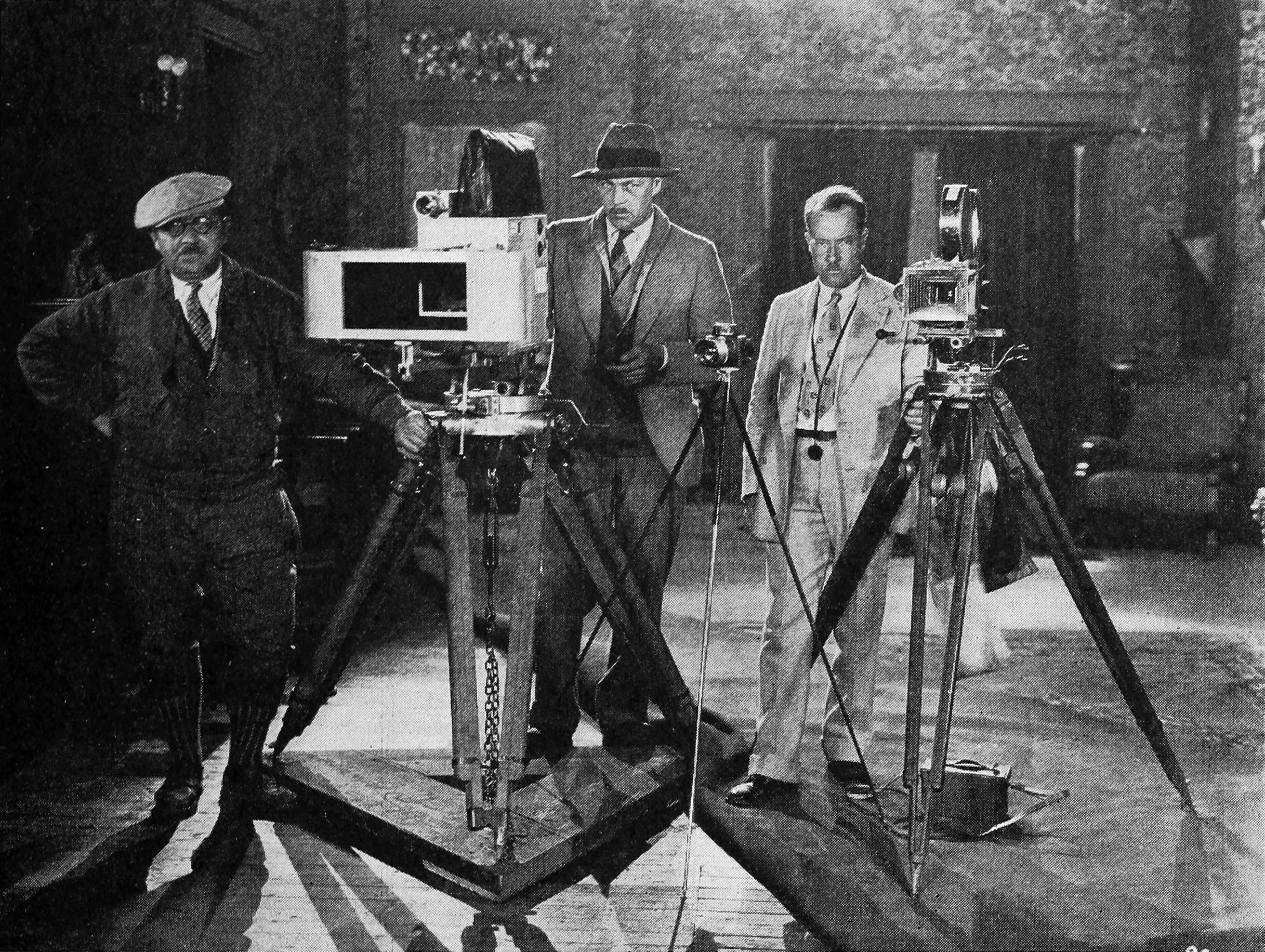 Filmmakers Conrad Luperti, J. Marvin Spoor, and William S. Adams with their camera used to create the stereoscopic film The American, a.k.a. The Flag Maker